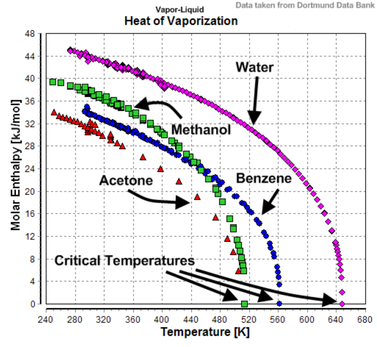 Temperature dependence of the heat of vaporization of Benzene, Acetone, Methanol, and Water. Data taken from Dortmund Data Bank